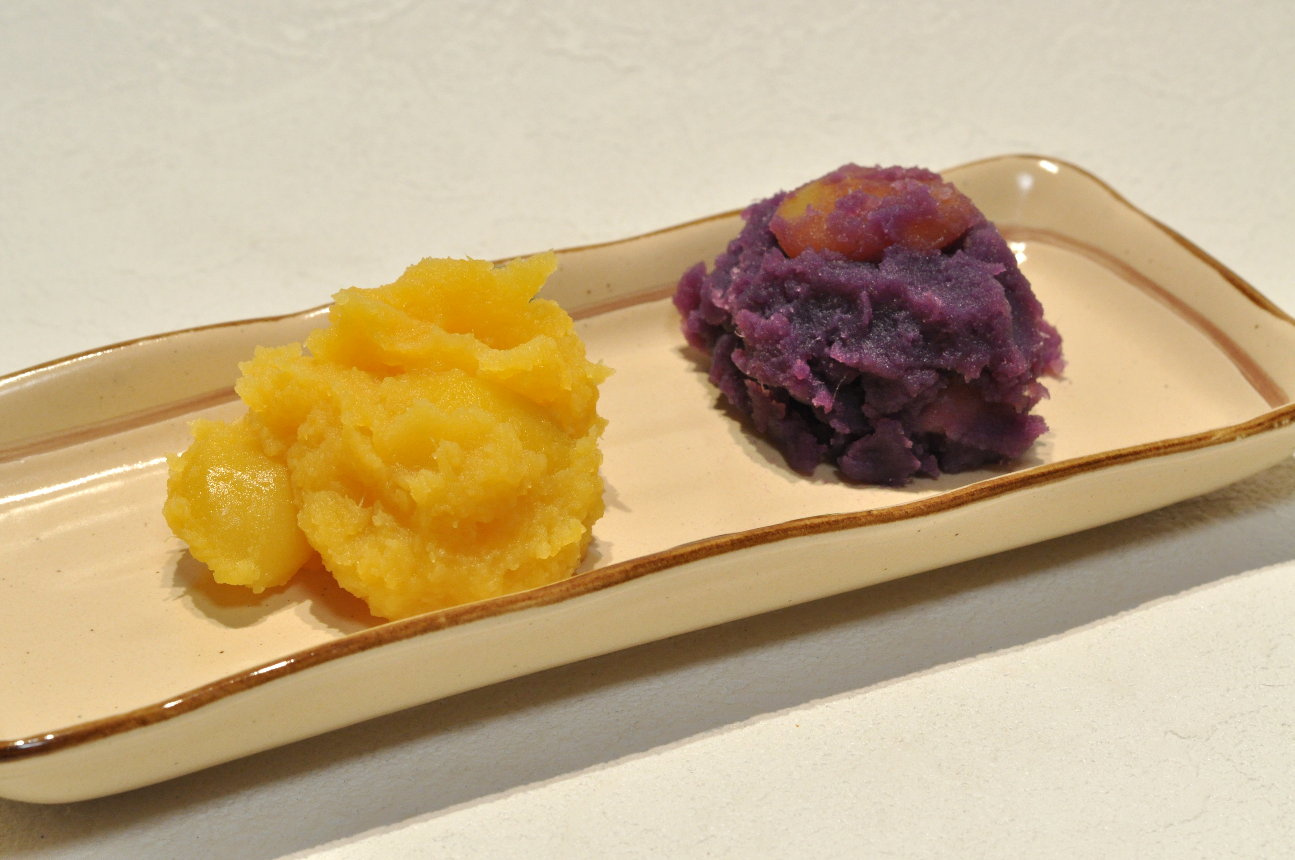 One of Japanese foods prepared for New Year's "Kuri-kinton"